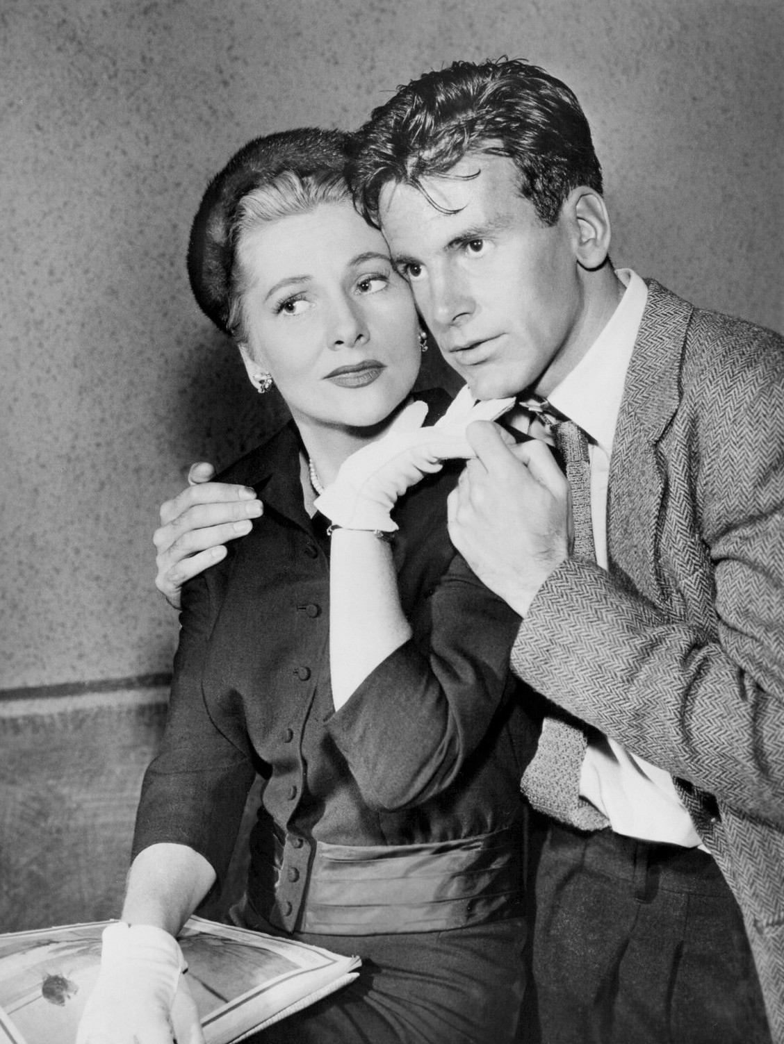 Photo of Joan Fontaine and Maximilian Schell from the Desilu Playhouse presentation of the drama Perilous. There are no copyright marks on the item, which can be seen at the link.